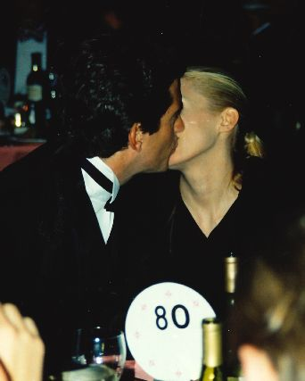 White house correspondents dinner April 26, 1997